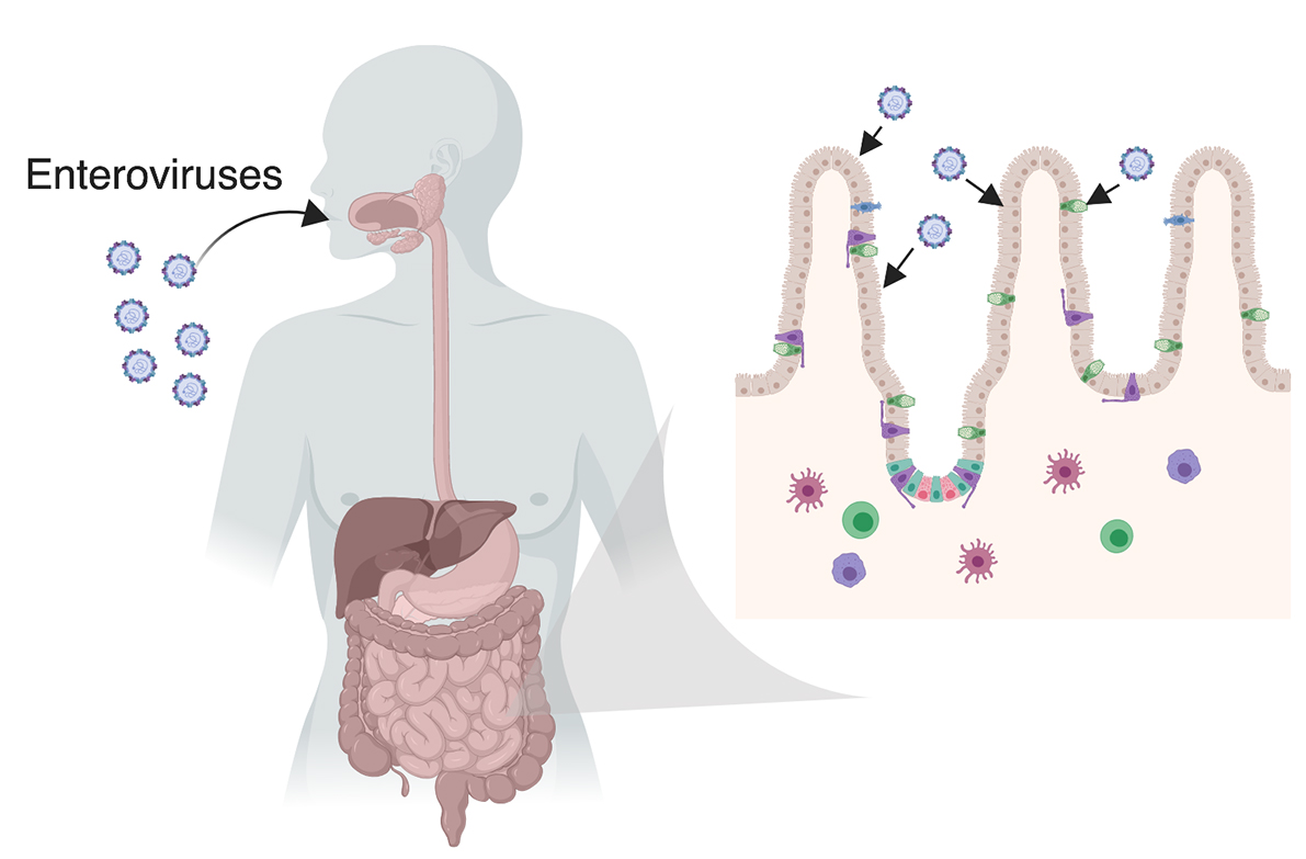 Enteroviruses primarily infect by the fecal–oral route and target the gastrointestinal epithelium early during their life cycles. Once internalized, enteroviruses are detected by intracellular proteins that recognize common viral features and trigger antiviral innate immune signaling. The gastrointestinal tract is composed of numerous cell types that are important for immune activation and barrier surface defenses. The gastrointestinal epithelium is composed of enterocytes, goblet cells, Paneth cells, enteroendocrine cells, tuft cells, and stem cells. In contrast, the lamina propria is composed of immune cells such as dendric cells, T cells, and macrophages.